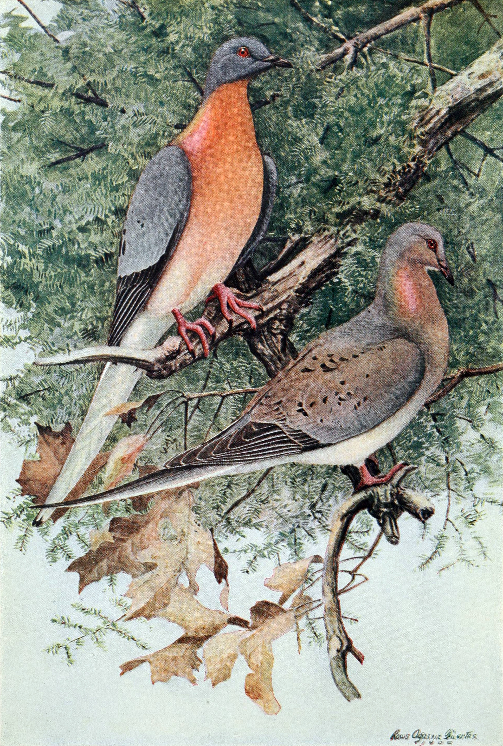 Frontispiece from a volume of articles, The Passenger Pigeon, 1907 (Mershon, editor). The caption reads: "PASSENGER PIGEON (Columba Migratoria) Upper bird, male ; lower, female